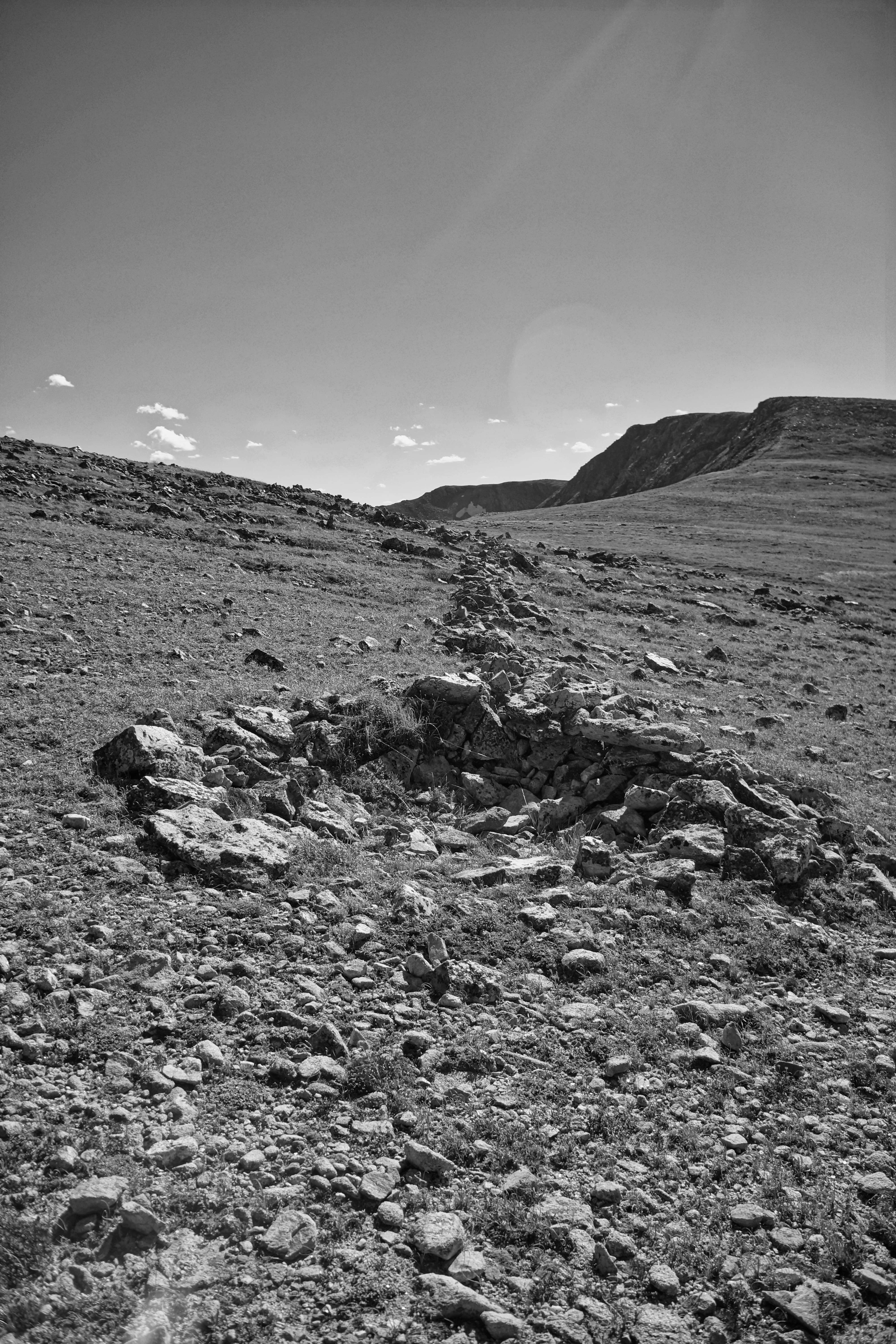 Rollins Pass - Olson Game Drive - Rock Wall & Hunting Blind